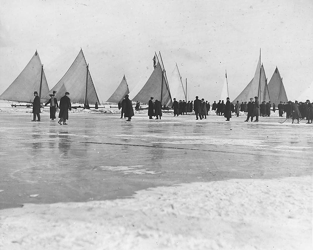 Iceboats on Toronto Bay, Toronto, Ontario, Canada